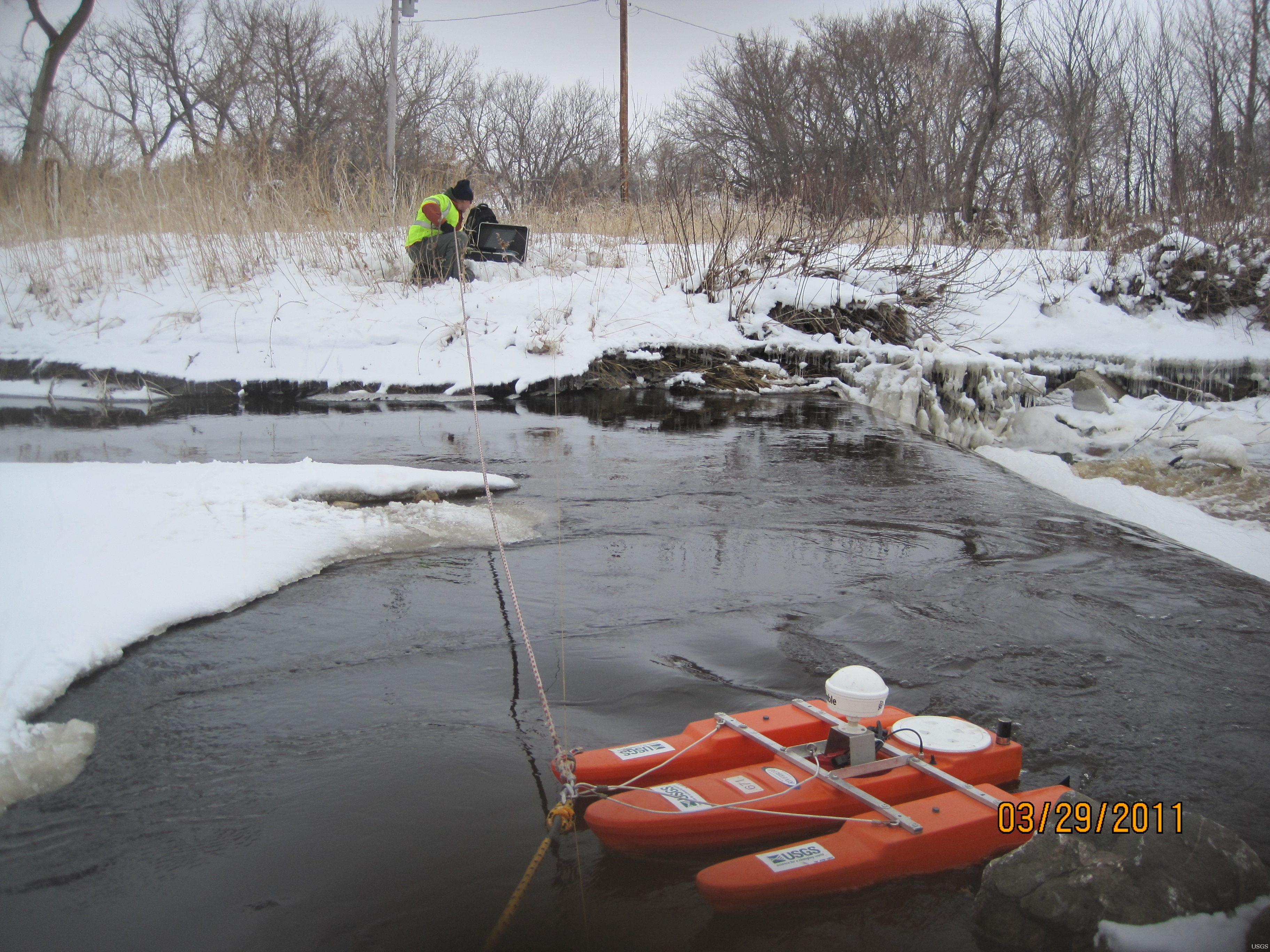 On March 29, 2011, USGS personel were using a Acoustic Doppler Current Profiler (ADCP) to measure streamflow, depth, and velocity of the Beaver Creek below Linton, ND measuring the steamflow. The streamflow was 189 cubic feet per second and stage approximately 13.82 feet.